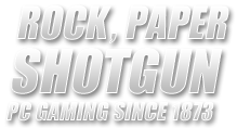 Logo of Rock, Paper, Shotgun